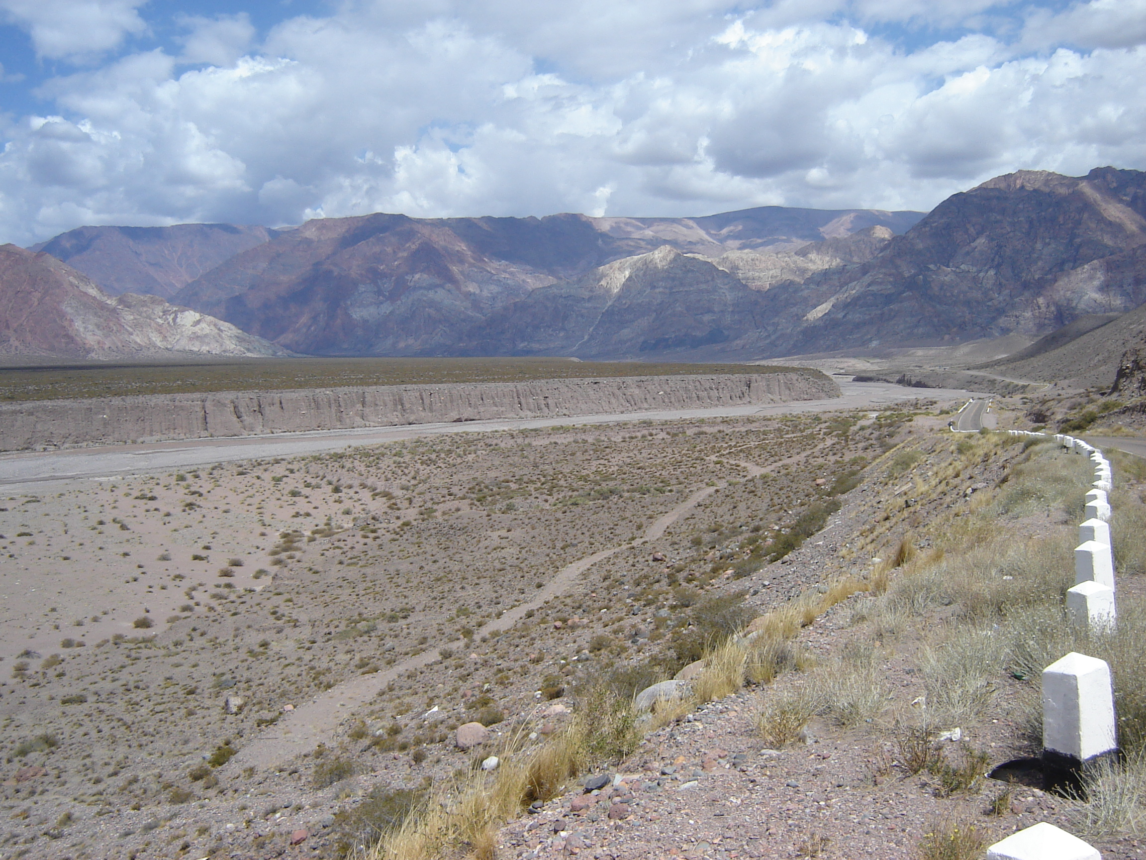 Mendoza's river alluvial plain.At the present de Mendoza river is eroding its own alluvium.